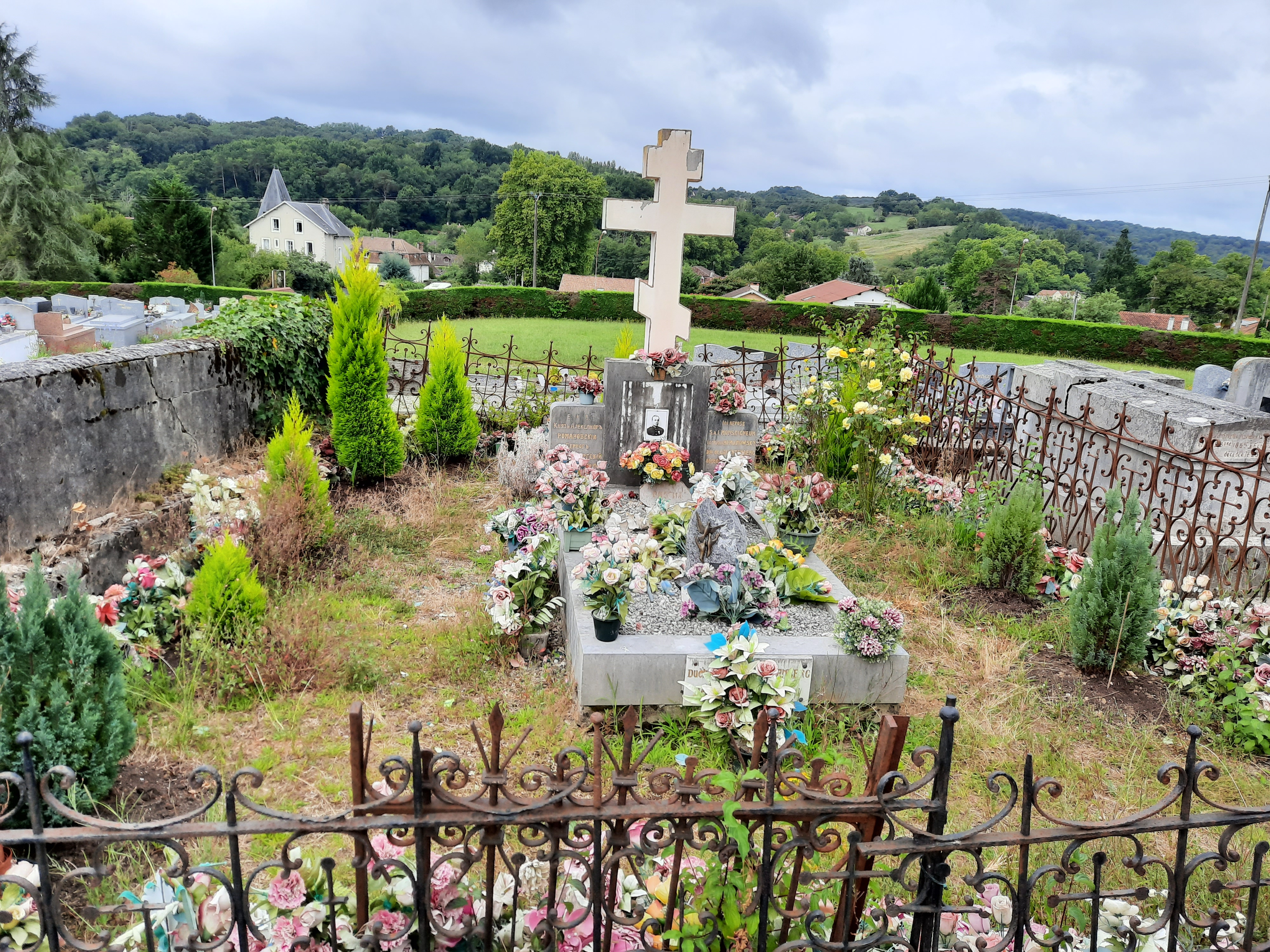 Tumb of Duke and Duchess Alexander of Leuchtenberg, in Salies-de-Bearn (France). July 2020.